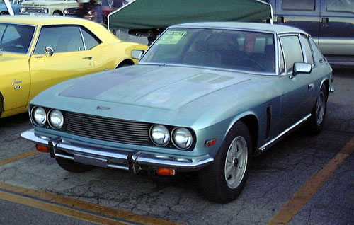 Jensen Interceptor. Photo by User:Morven at the Pomona, California auto swap meet and car show on July 18, en:2004.